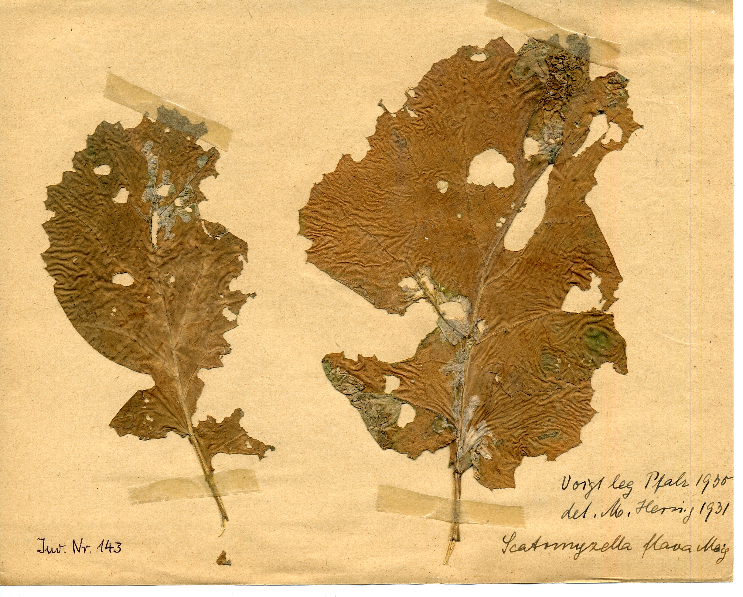 Leaf-mark Coll. Friedrich Ludwig Stellwaag. Host plant: Brassica napus gongyloides (Cruciferae) - Parasite: Scaptomyzella flava (Drosophilidae) - Location: Pfalz, 1930, leg. Voigt, det.Hering 1931, being processed by Gisela Schadewaldt.